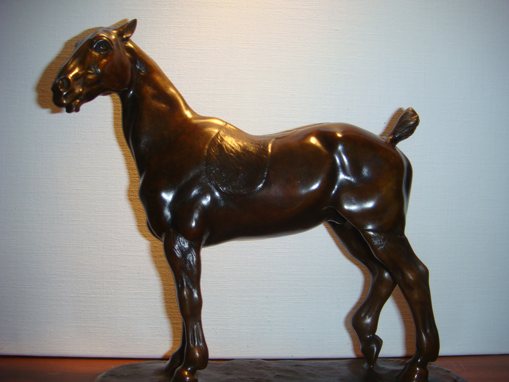 bronze sculpture made by Gaston d'Illiers in 1928 from a horse called Jack